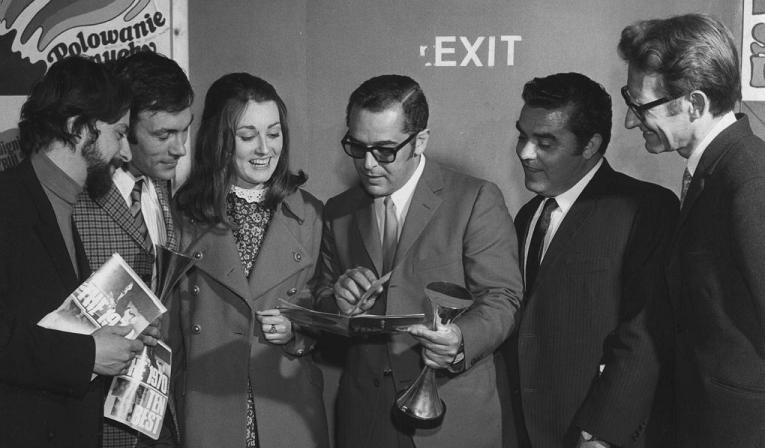 Cecil with other award winners in London receiving a Ten Best Award.